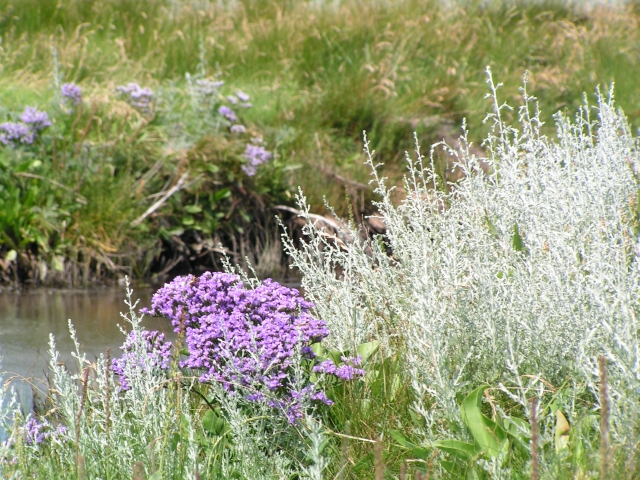 Close up picture of Saltmarshplants in NP Schleswig-Hosteinisches Wattenmeer, Germany Author: M.Buschmann